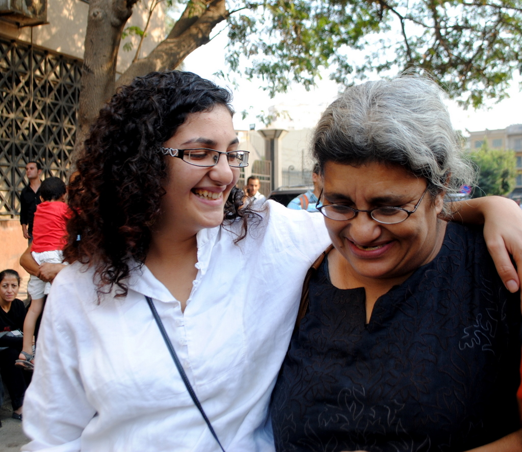 Activist Laila Soueif and her daughter Mona Seif in October 14, 2011